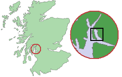 Map showing the location of Gare Loch within Scotland Original work of submitter. Source of map outline was :Image:Scotland_Map.png, template was :Image:Scotland_Map_(Firth_of_Clyde_Detail).png